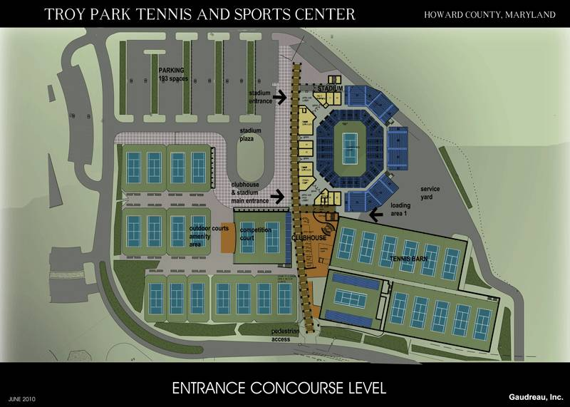 Troy Park Tennis and Sports Center Layout